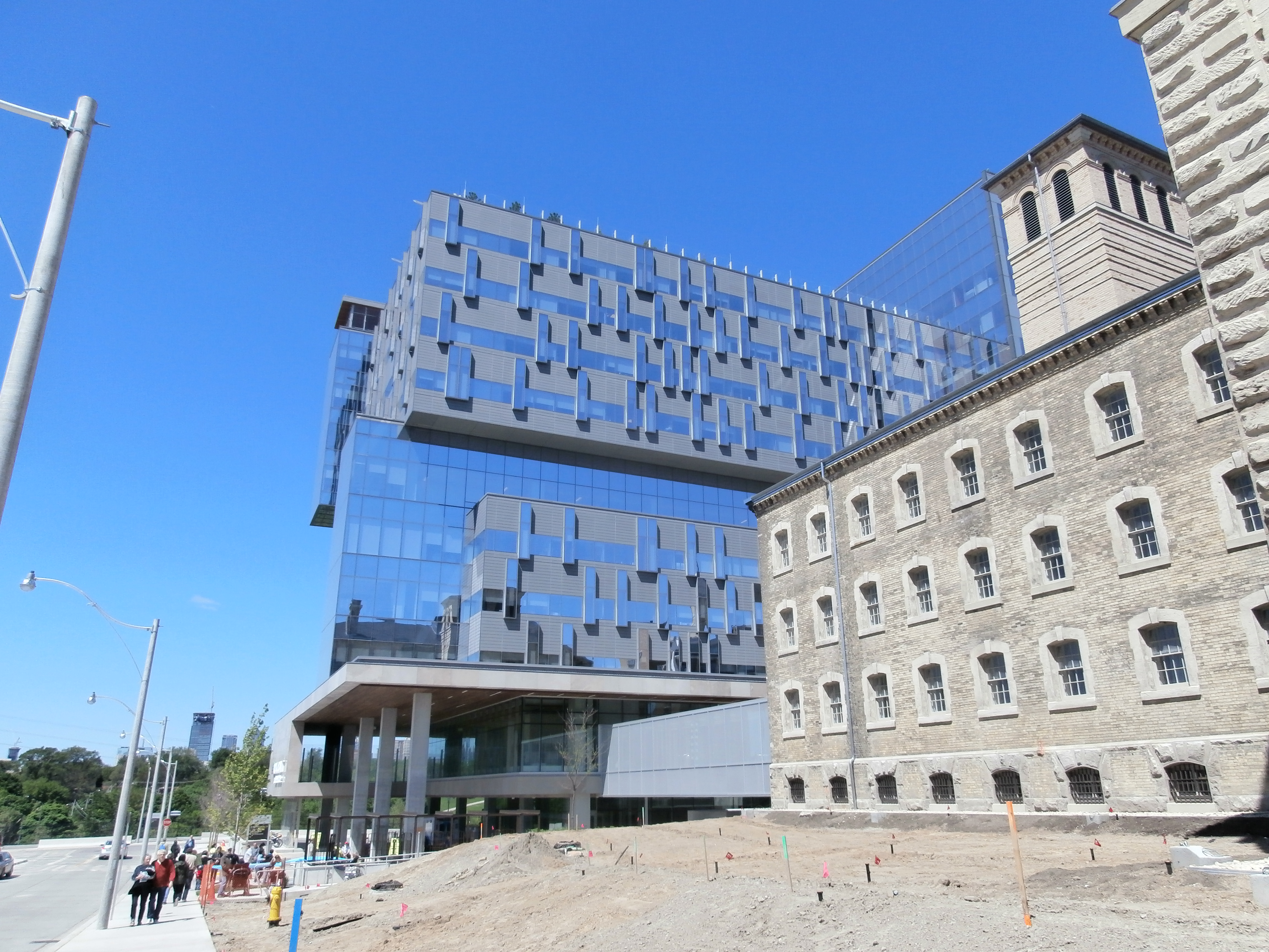 The new Bridgepoint Hospital Building, next to the restored Don Jail building, both forming the new campus of Bridgepoint Health. Toronto, Ontario, Canada.